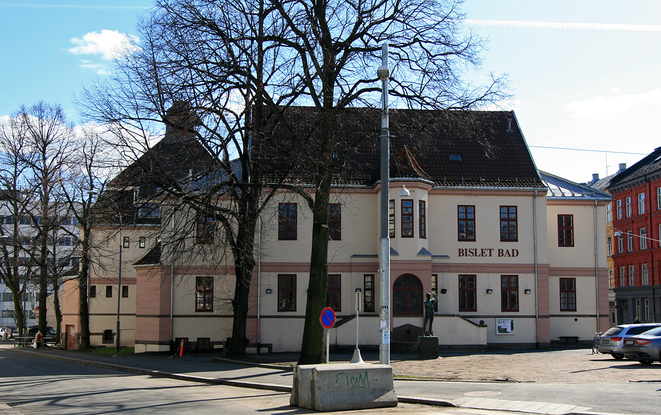 Bislet bad, Oslo. Municipal bath, built 1920. Architects Harald Aars and Lorentz Ree. Nordic neo-baroque.